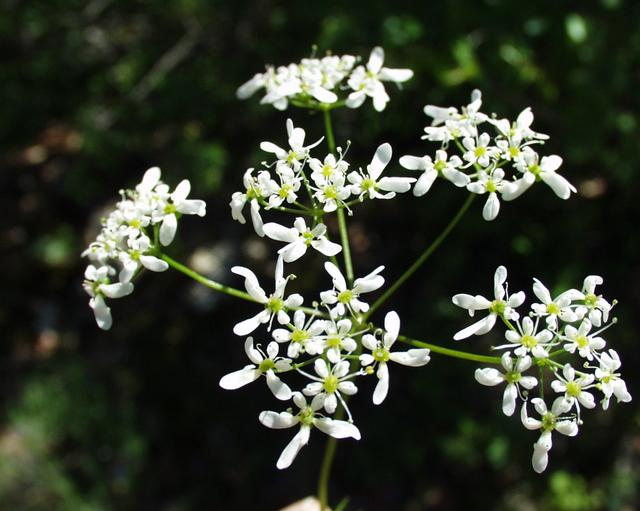 (en) (Gb)Wild Bishop (Bifora radians), a photography originating of the internet site The accord of the autor, H. Brisse, is here. (fr) Bifora rayonnant (Bifora radians), une photographie issue du site internet L'accord de l'auteur, H. Brisse, se situe ici. (It)Coriandolo puzzolente (Bifora radians) (De)Strahlender Hohlsame (Bifora radians) (Nl)Holzaad (Bifora radians)